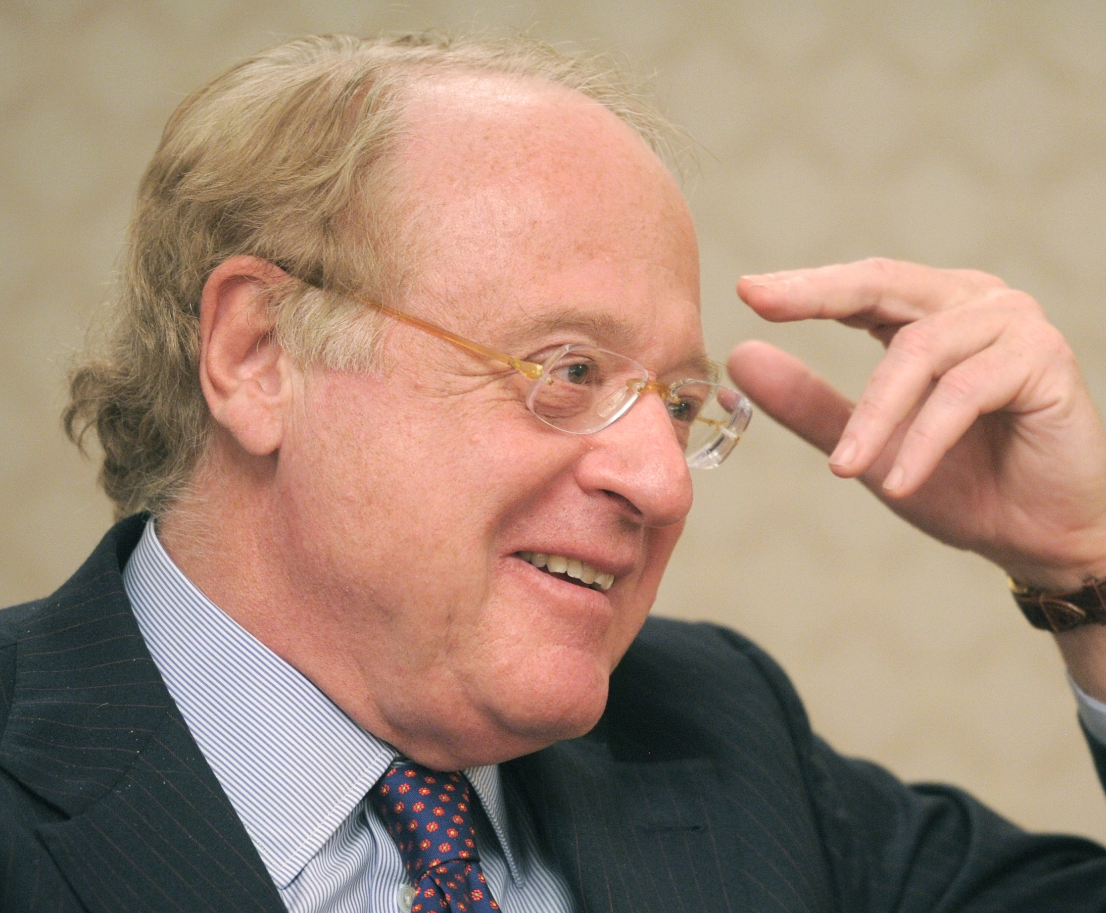 Eni CEO Paolo Scaroni meeting with Prime Minister Vladimir Putin at the House of the Government of the Russian Federation, Moscow.